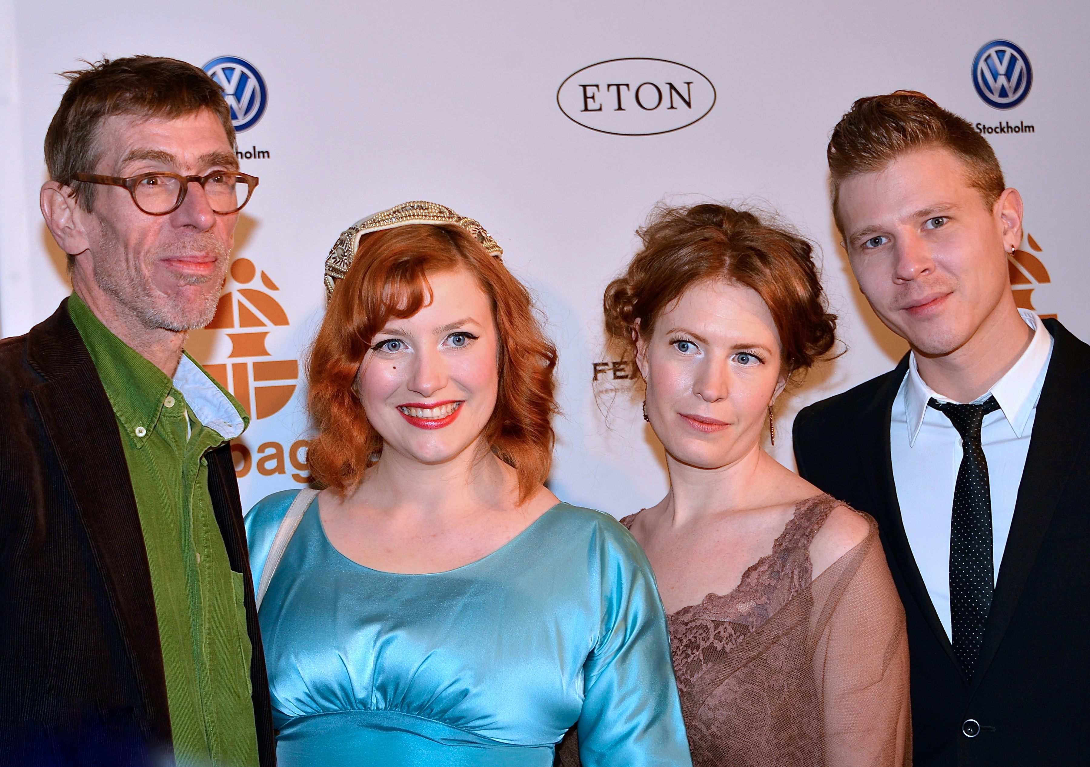 Niels Pagh Andersen, Elsa Billgren, Hanna Lejonqvist och Andreas Jonsson on Guldbaggegalan January 21, 2013 at Cirkus in Stockholm.